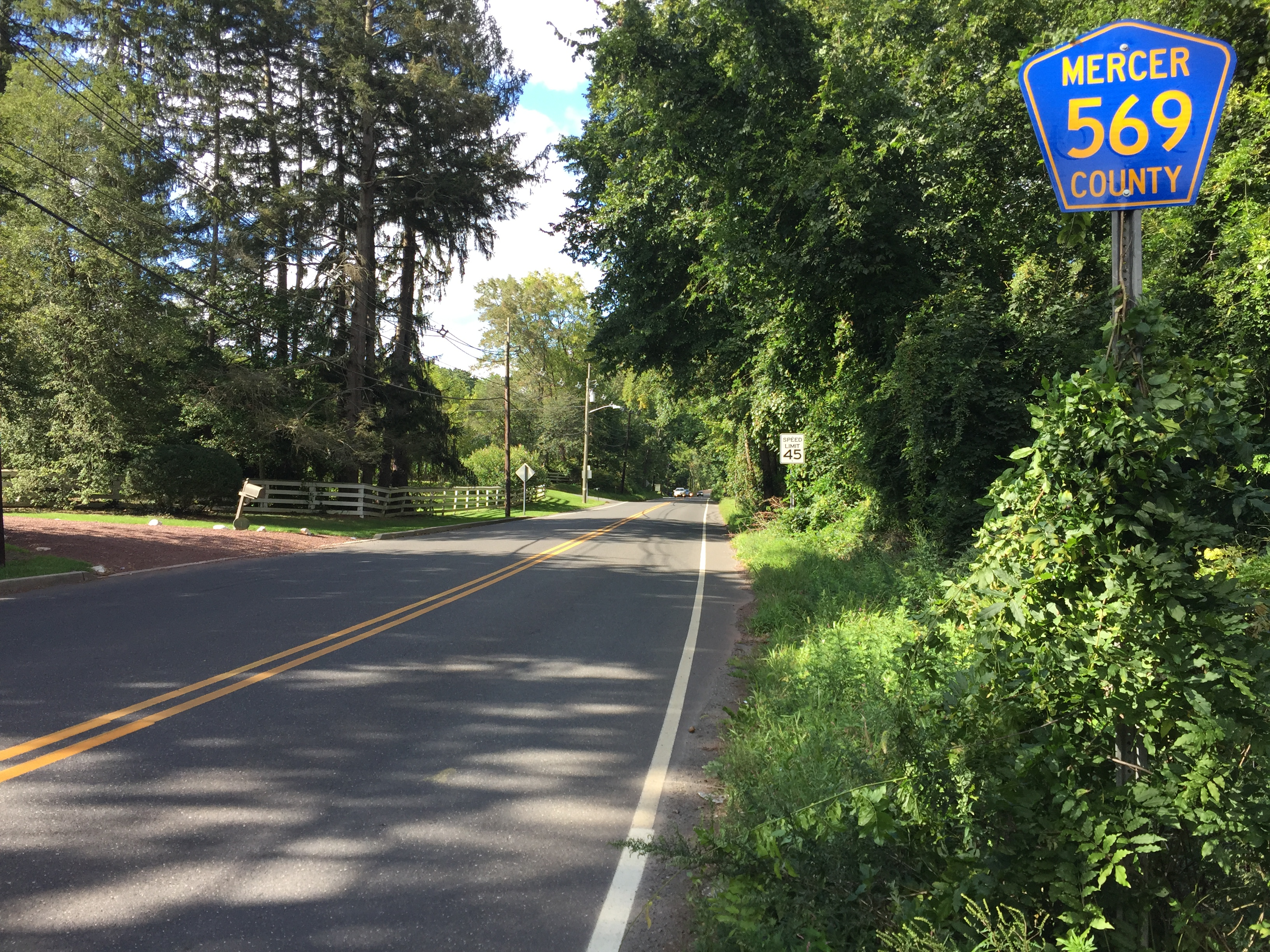 View north along Carter Road (Mercer County Route 569) at U.S. Route 206 (Lawrenceville Road) in Lawrence Township, Mercer County, New Jersey